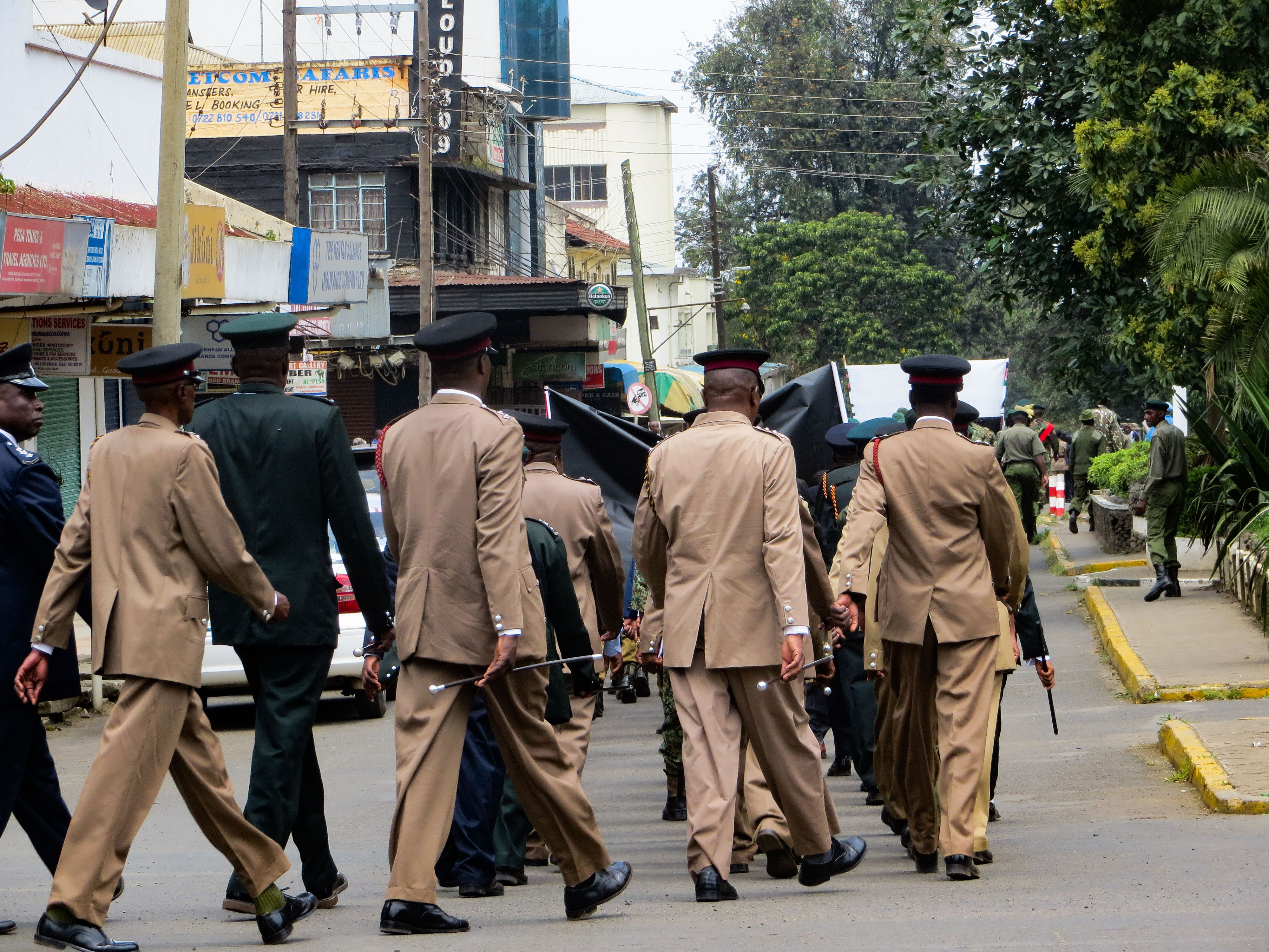 Kenya National Youth Service officals This is an image with the theme "Africa on the Move or Transport" from: Kenya